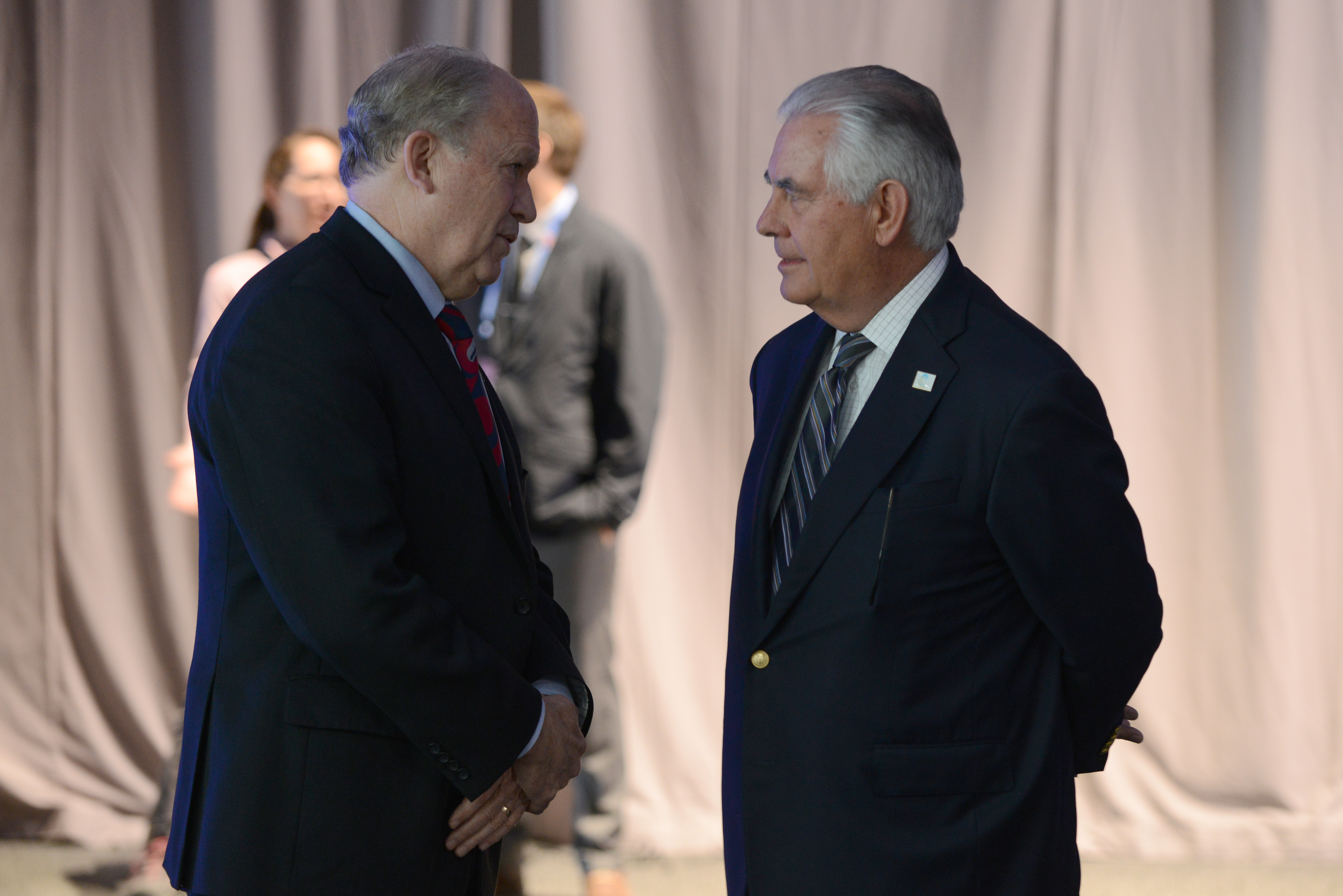 U.S. Secretary of State Rex Tillerson shares a moment with Alaska Governor Bill Walker following the 10th Arctic Council Ministerial Meeting in Fairbanks, Alaska, on May 11, 2017. [U.S. Air Force photo / Public Domain]